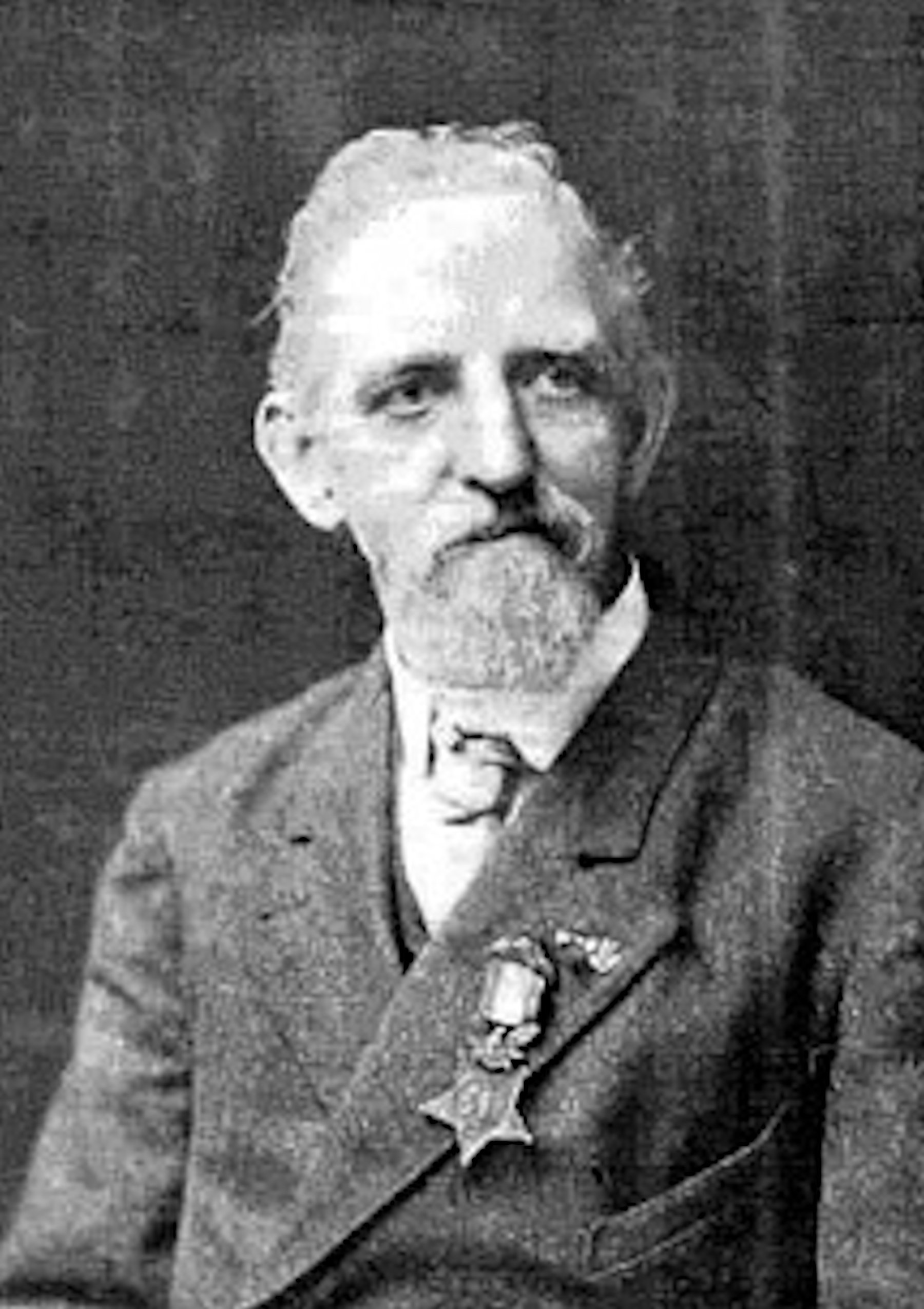 Medal of Honor winner